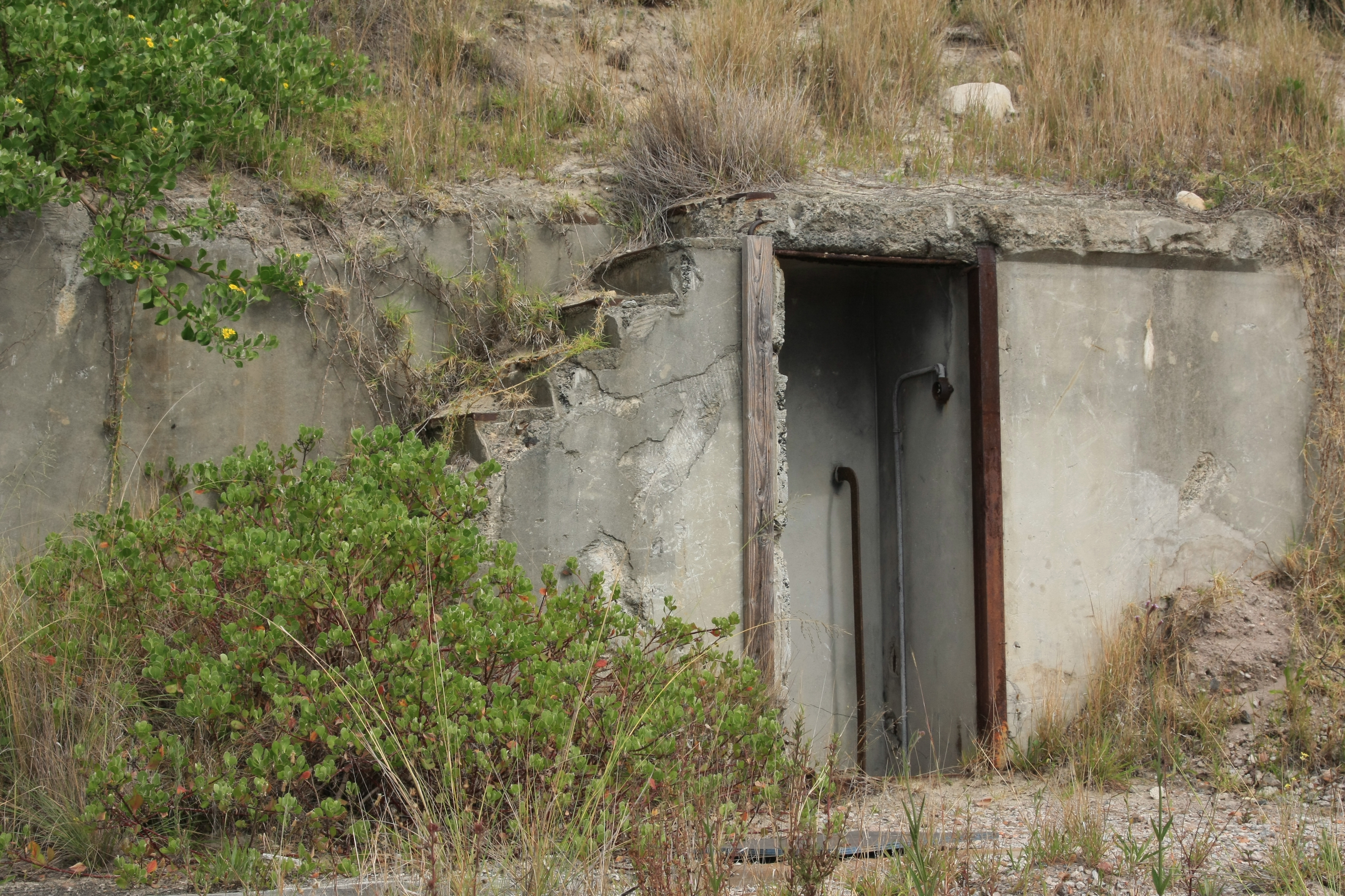 Former entrance to the Bunnerrong Power station coal storage tunnels